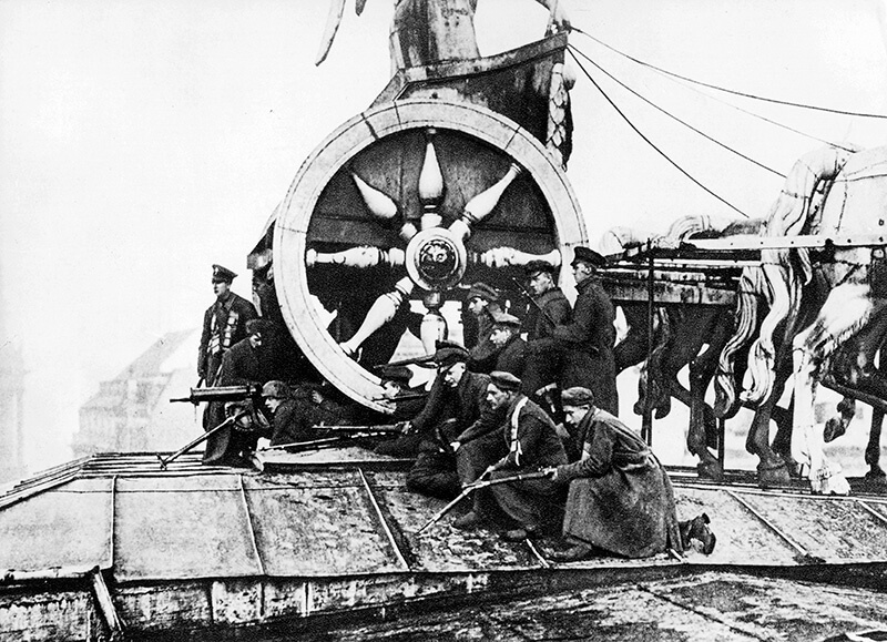 Machine-gun position on the quadriga of the Brandenburger Tor, Berlin, during the Spartacist uprising; ; Landesarchiv Berlin